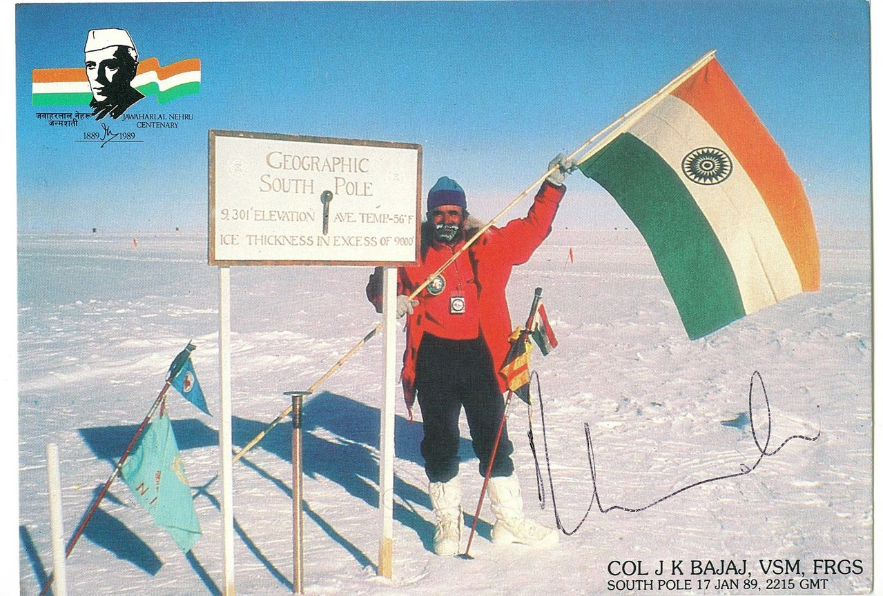 From the personal collection of Col. JK Bajaj, SM, VSM, FRGS Converted from slides by Col. Bajaj.